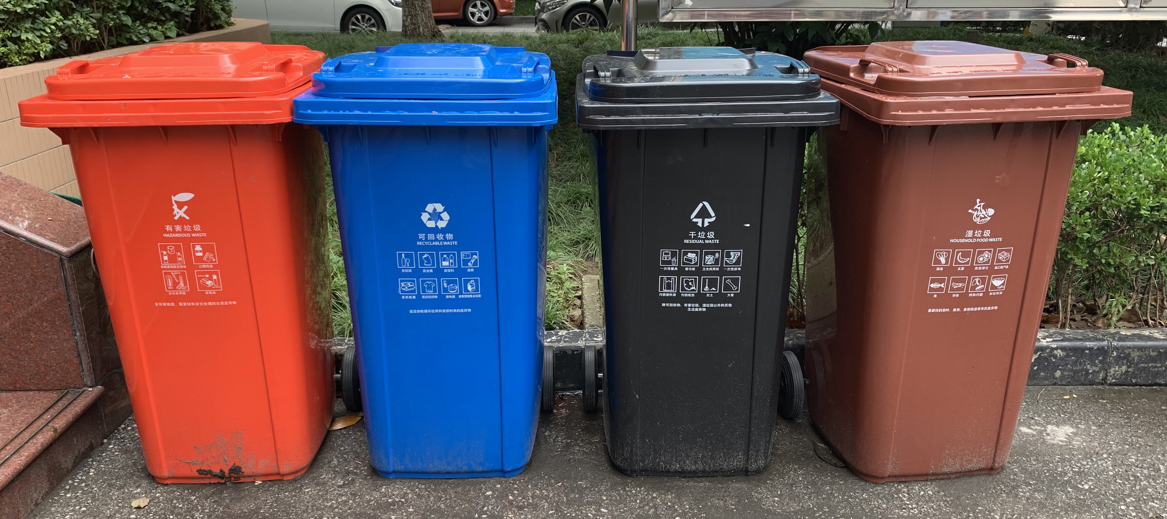 Sorted waste containers set up in Shanghai in response of the mandatory waste sorting rules implemented on July 1, 2019.